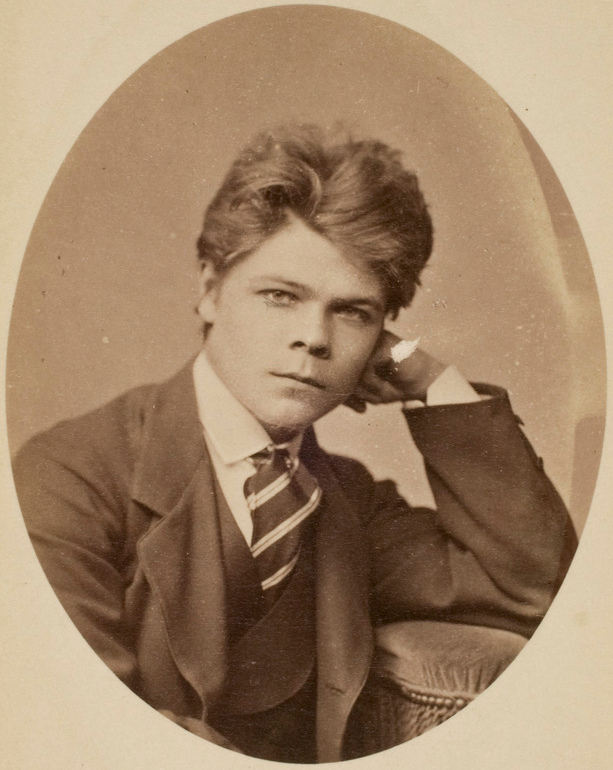 Stigell as a young student of sculpture at Rome.